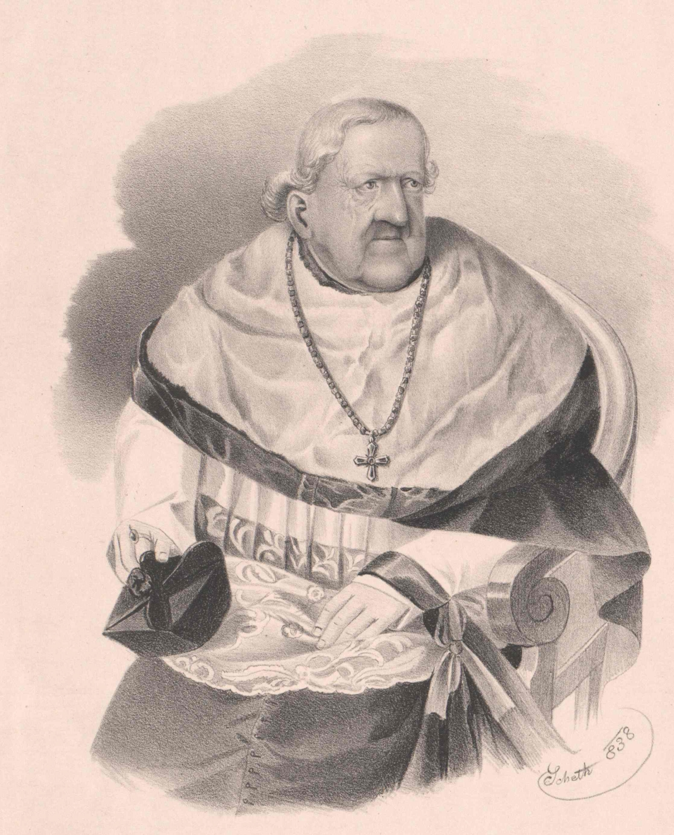 Johann Christoph Stelzhammer (1750–1840), Austrian Catholic clergyman, physicist and university teacher. Lithography.